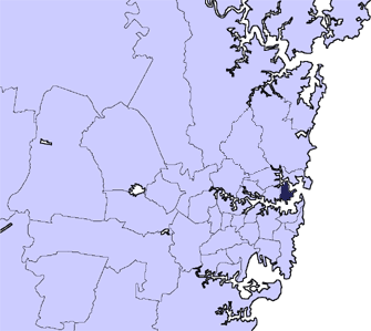 Locator Map Mosman lga sydney.png Based on Image:Ku-ring-gai sydney.png by User:Randwicked.